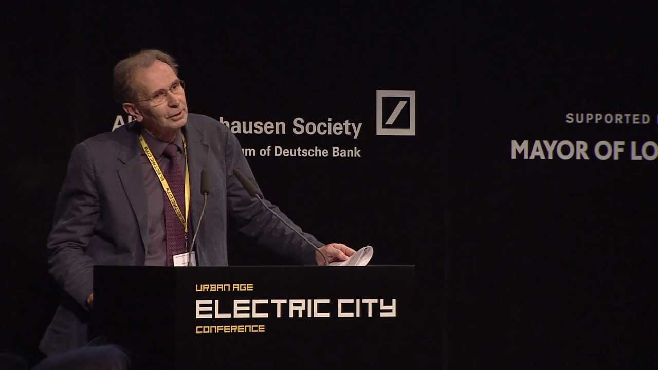 Urban Age Electric City: John Urry - Sociotechnical scenarios for the future of the city